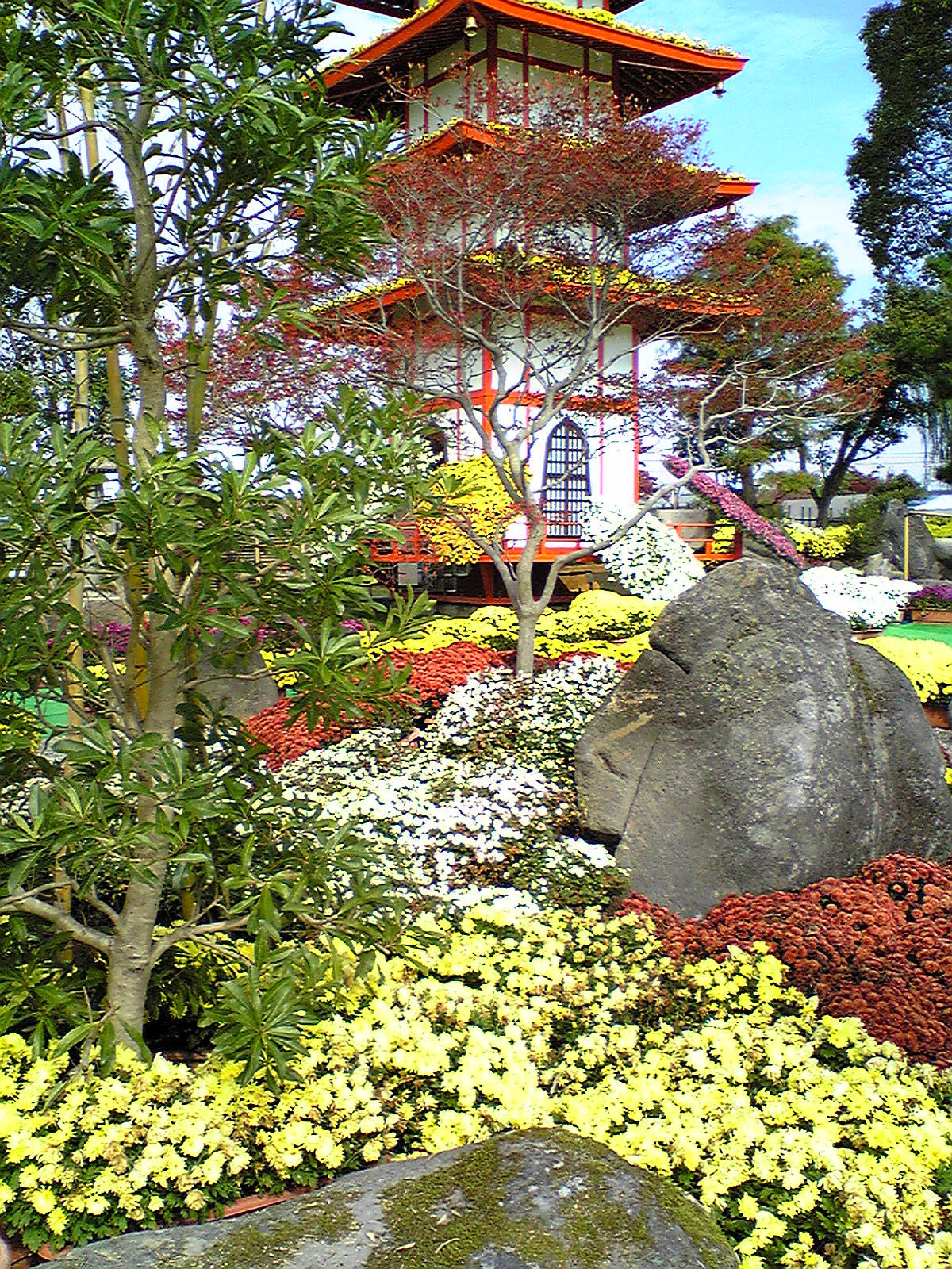 Takefu's famous Chrysanthemum Doll Festival